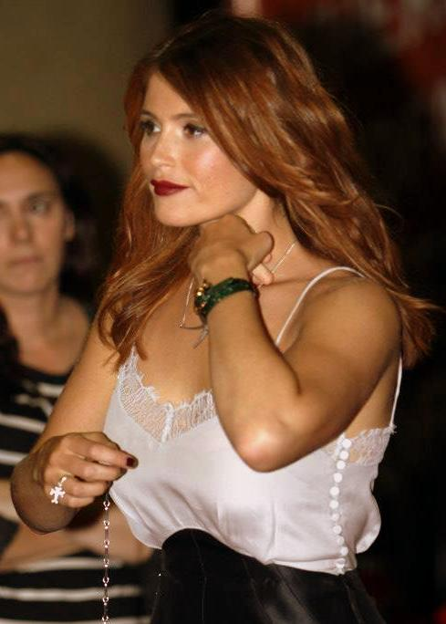 Gemma Arterton at the premiere of Byzantium, in the Toronto Film Festival 2012.